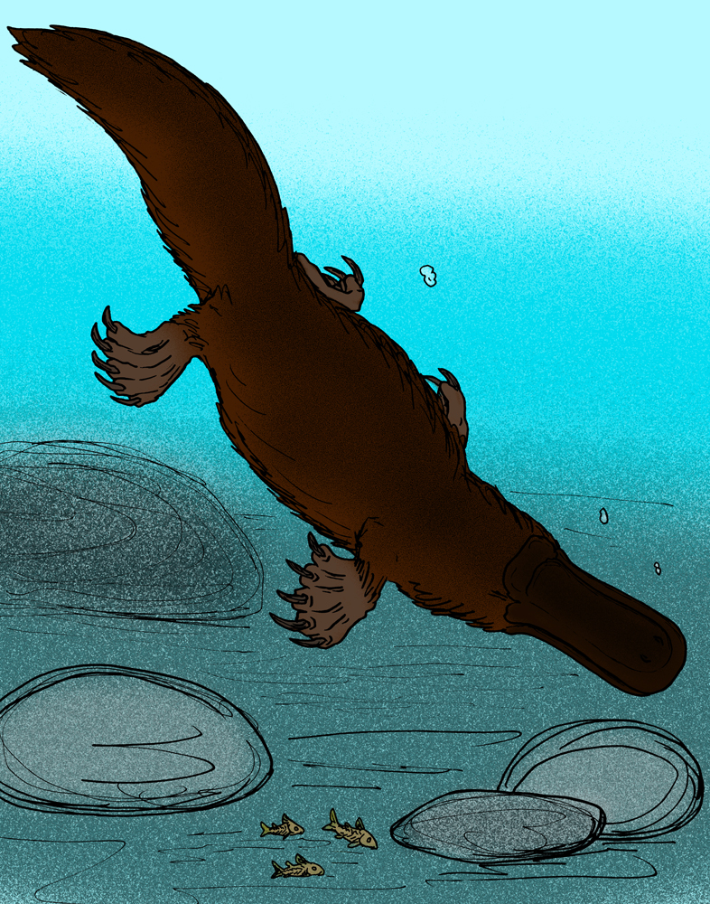 Reconstruction of the South American monotreme, Monotrematum/Obdurodon sudamericanum, from the Early Paleocene Salamanca Formation, Argentina